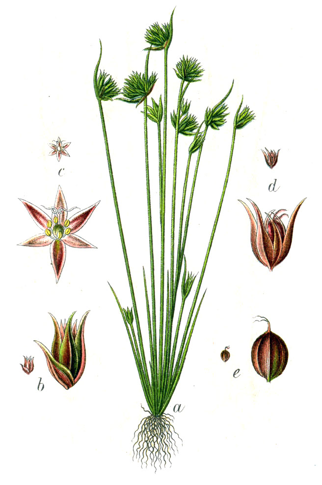 Juncus capitatus Weigel Original Caption Aufrechte Zwergbinse, Juncus capitatus